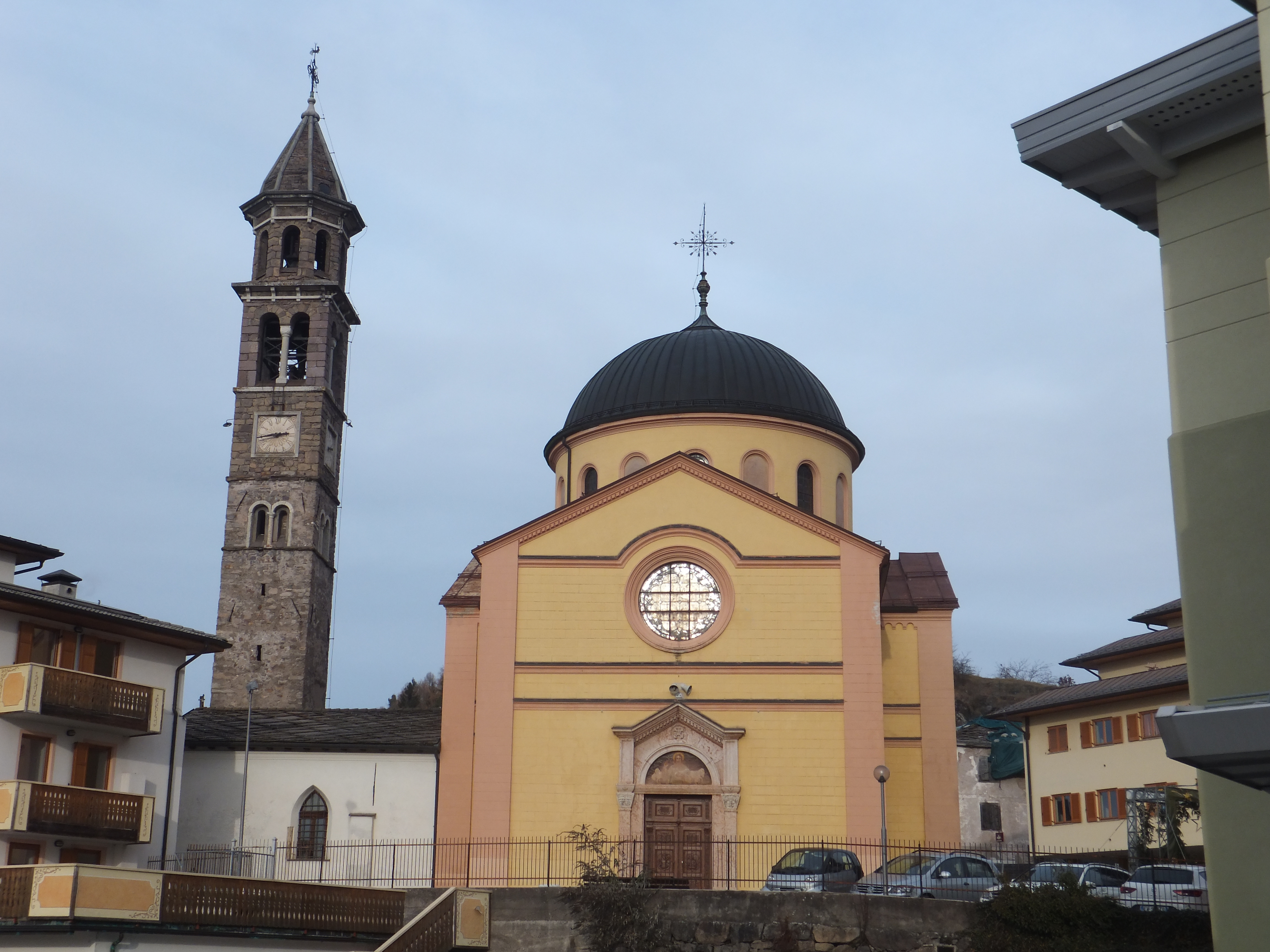 Miola (Baselga di Pinè, Trentino-South Tyrol, Italy) - Church of Saint Roch